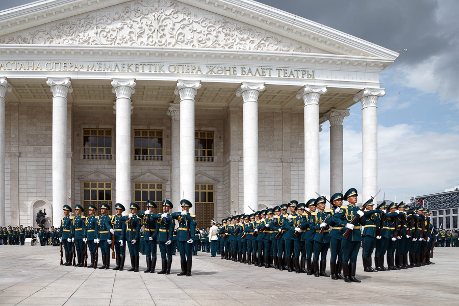 Closing ceremony of the international festival "Trumpet of Peace 2016" (Kazakhstan, Astana)